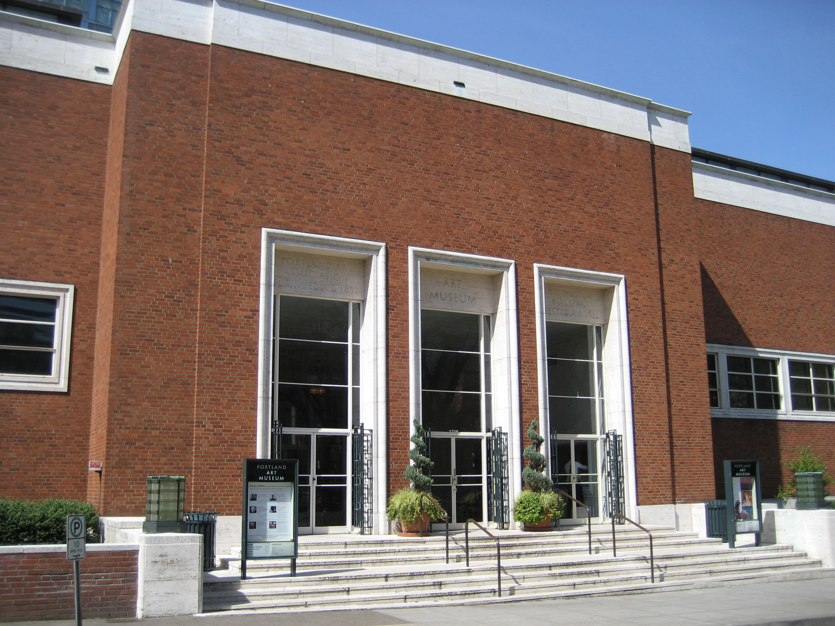 Portland Art Museum Architect, Pietro Belluschi.